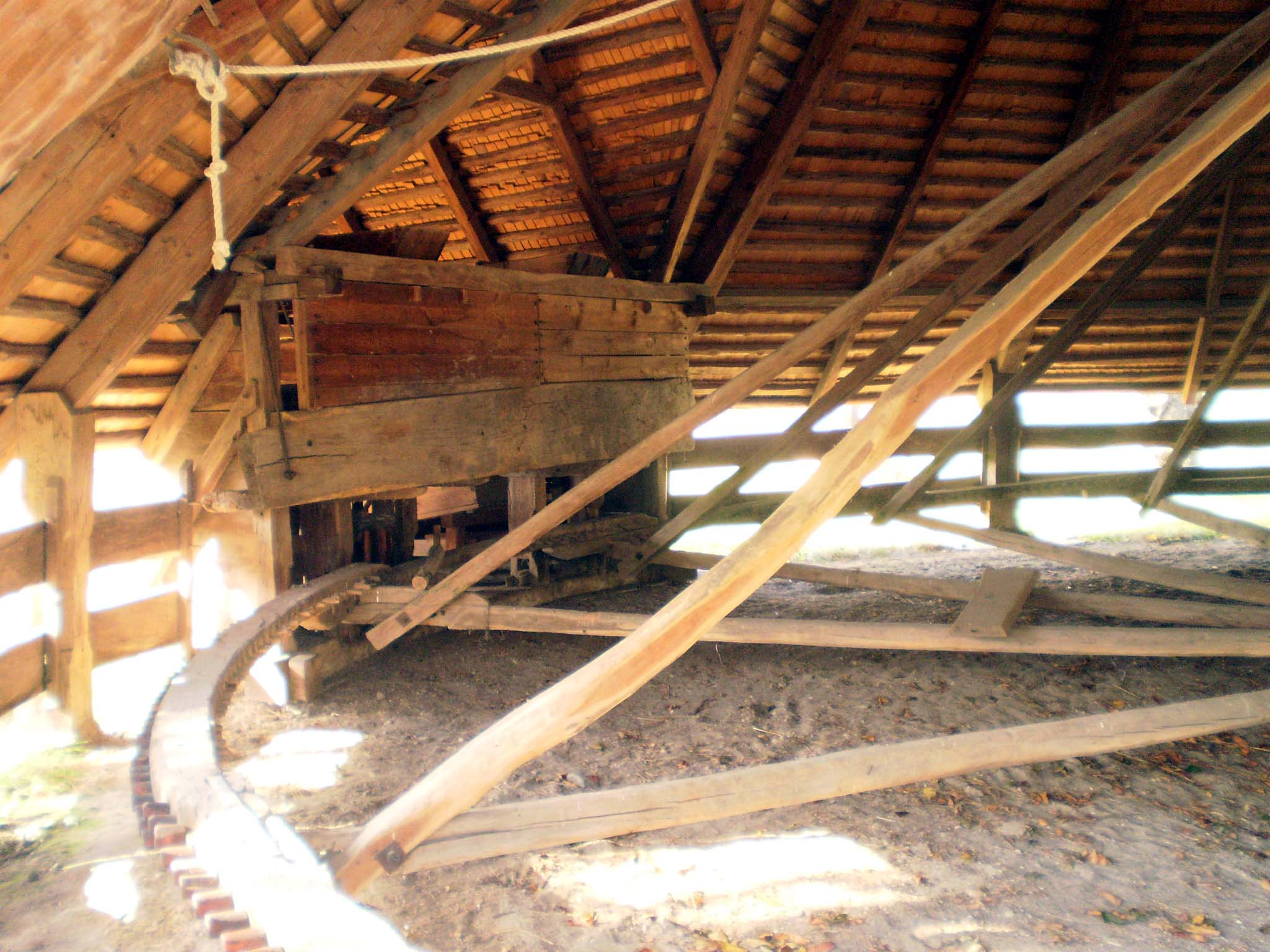 Horse-powered mill, Vámosoroszi, Hungary